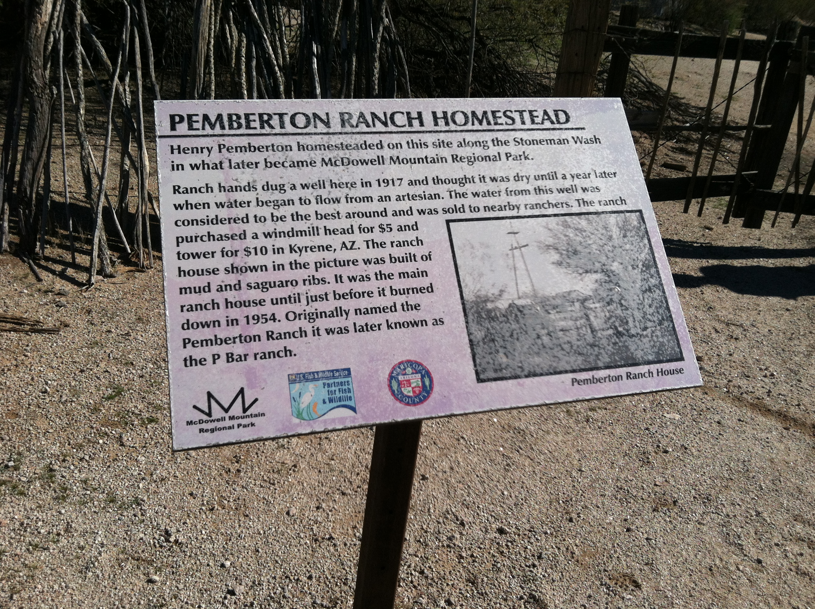 Picture of the plaque by the old Pemberton ranch, just north of modern Fountain Hills